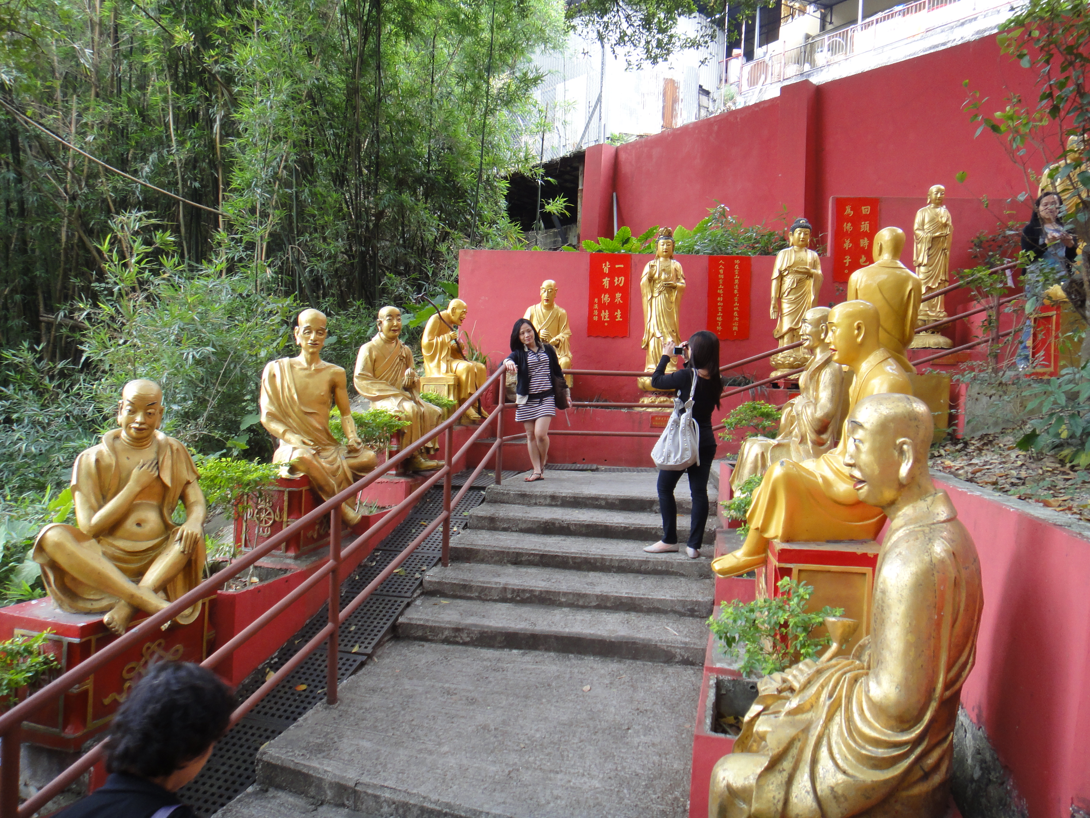 Buddha Statues